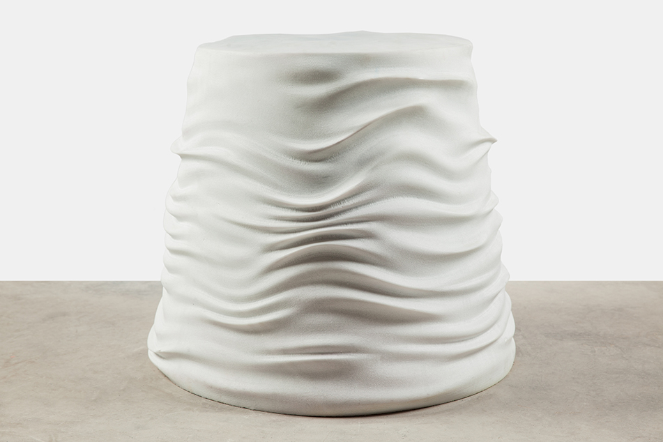 Samba collection is the result of a digital process using generative design to create furniture. The rhythm and melody of traditional Brazilian music shaped the pieces. Two different classics samba songs were chosen. From each one, we extracted parameters, as vocals, bass, treble and medium. From these data we got multiple frequencies and informations. Curves were generated, growing in real-time following the music. The final result is an organic and smooth surface, the literal visualization of Samba songs. A CNC machine sculpts the digital file in a Carrara marble cube in Italy.